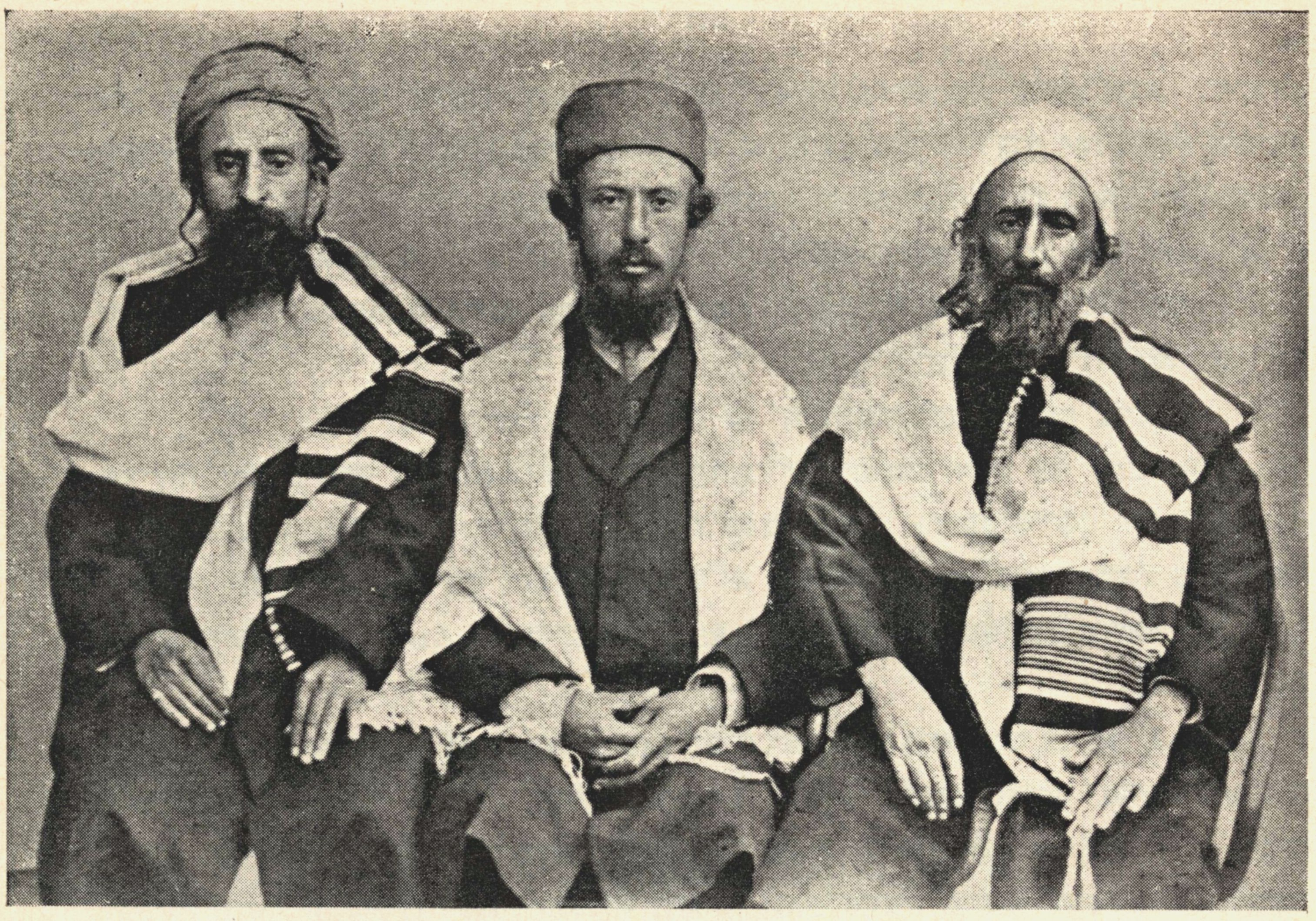 The photo, taken in 1911, shows the Chief Rabbi of Yemen (L) sitting with Zionist emissary, Shemuel Yavne'eli, in Sana'a, Yemen Other information This work or image is now in the public domain because its term of copyright has expired in Israel. According to Israel's copyright statute from 2007 (translation), a work is released to the public domain on 1 January of the 71st year after the author's death (paragraph 38 of the 2007 statute) with the following exceptions: ##A photograph taken on 24 May 2008 or earlier — the old British Mandate act applies, i.e. on 1 January of the 51st year after the creation of the photograph (paragraph 78(i) of the 2007 statute, and paragraph 21 of the old British Mandate act). If the copyrights are owned by the State, not acquired from a private person, and there is no special agreement between the State and the author — on 1 January of the 51st year after the creation of the work (paragraphs 36 and 42 in the 2007 statute).